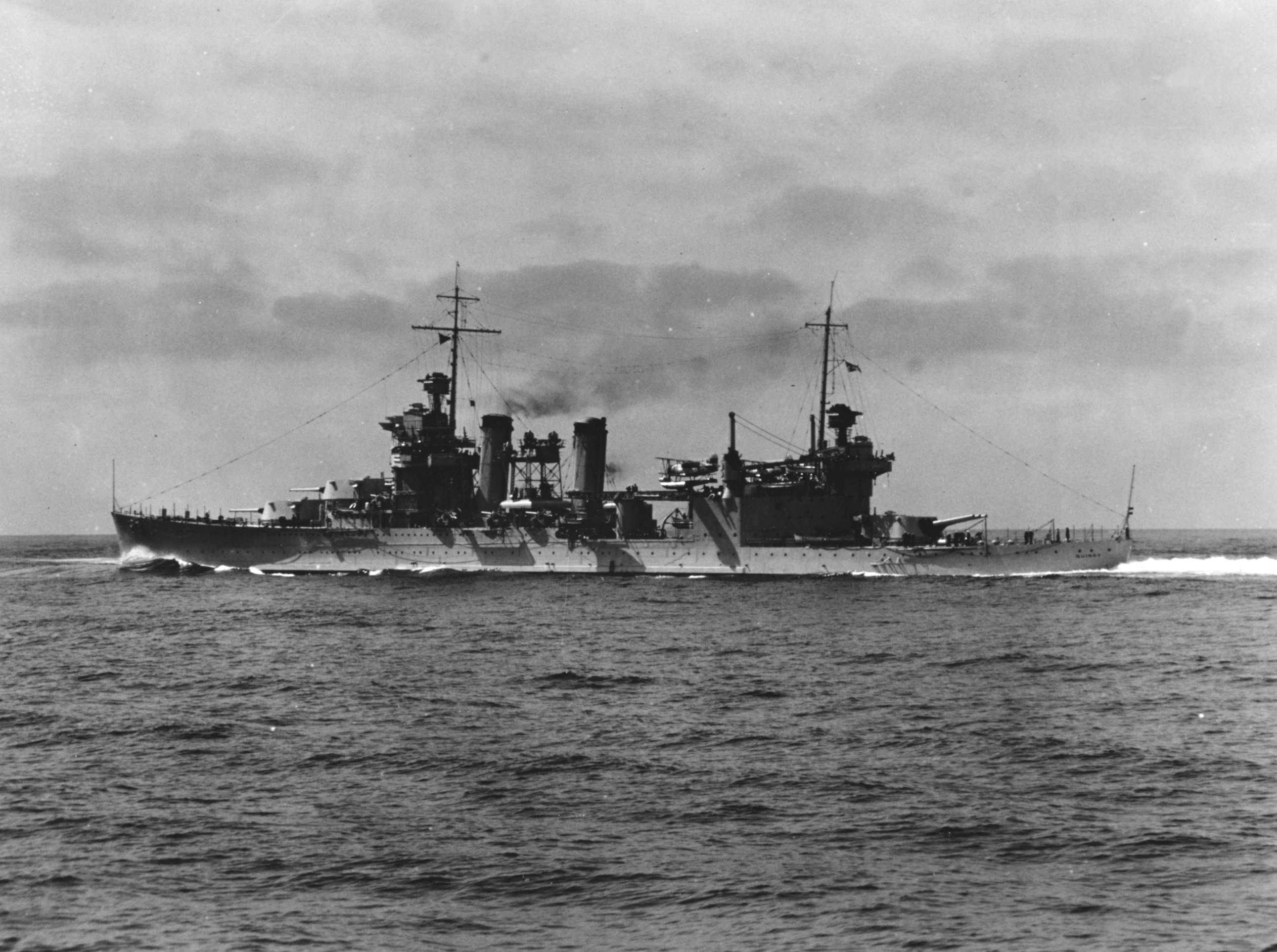 The U.S. Navy heavy cruiser USS Quincy (CA-39) underway at sea, circa 1937.